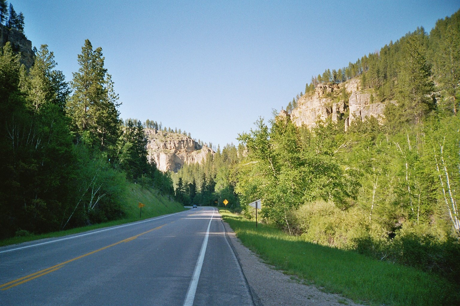 Black Hills SD,Staate Route 14a,Lawrence County